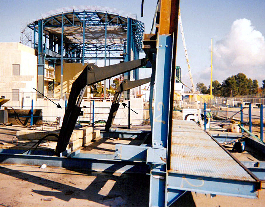 hydraulic scissor on work area